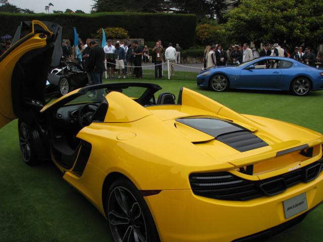 McLaren 12C Spider, taken at 2012 Pebble Beach Concours d'Elegance